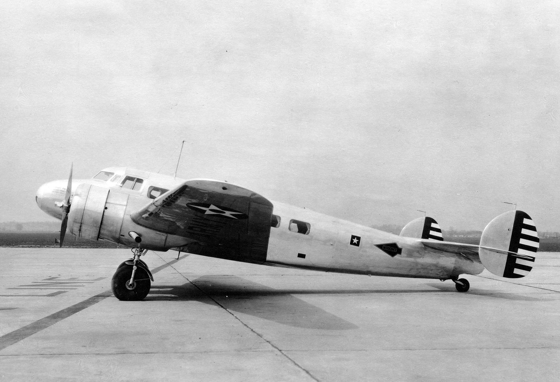 Lockheed Y1C-36 assigned to Wright Field. Note one-star general insignia. This type was later redesignated as C-36 and then again as UC-36. (U.S. Air Force photo)